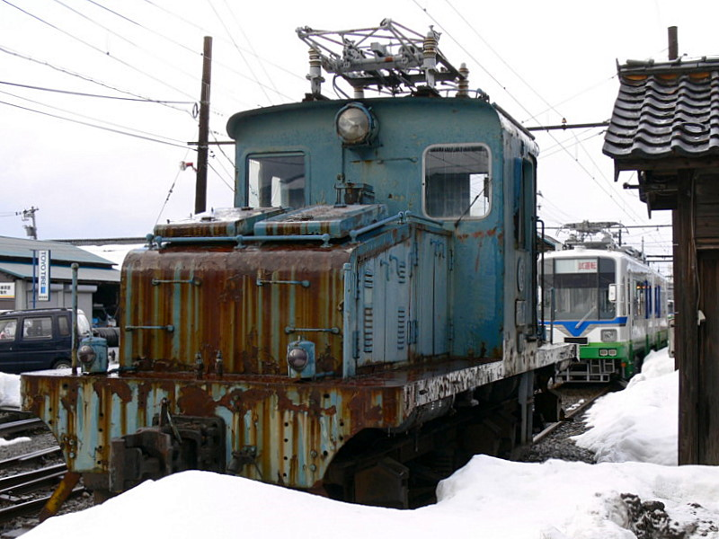 Fukui Railway Type Deki2 Electric locomotive(Japan). It takes a picture from the home at FukubuLine NisiTakehu Station.